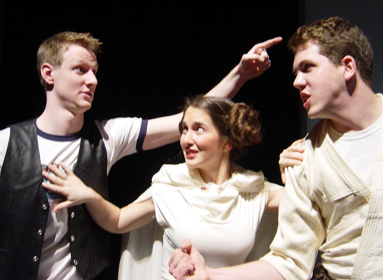 Photo of from Law Wars, the 2004 production of the Theatre of the Relatively Talentless (TORT), a law student organization at the University of Minnesota Law School.